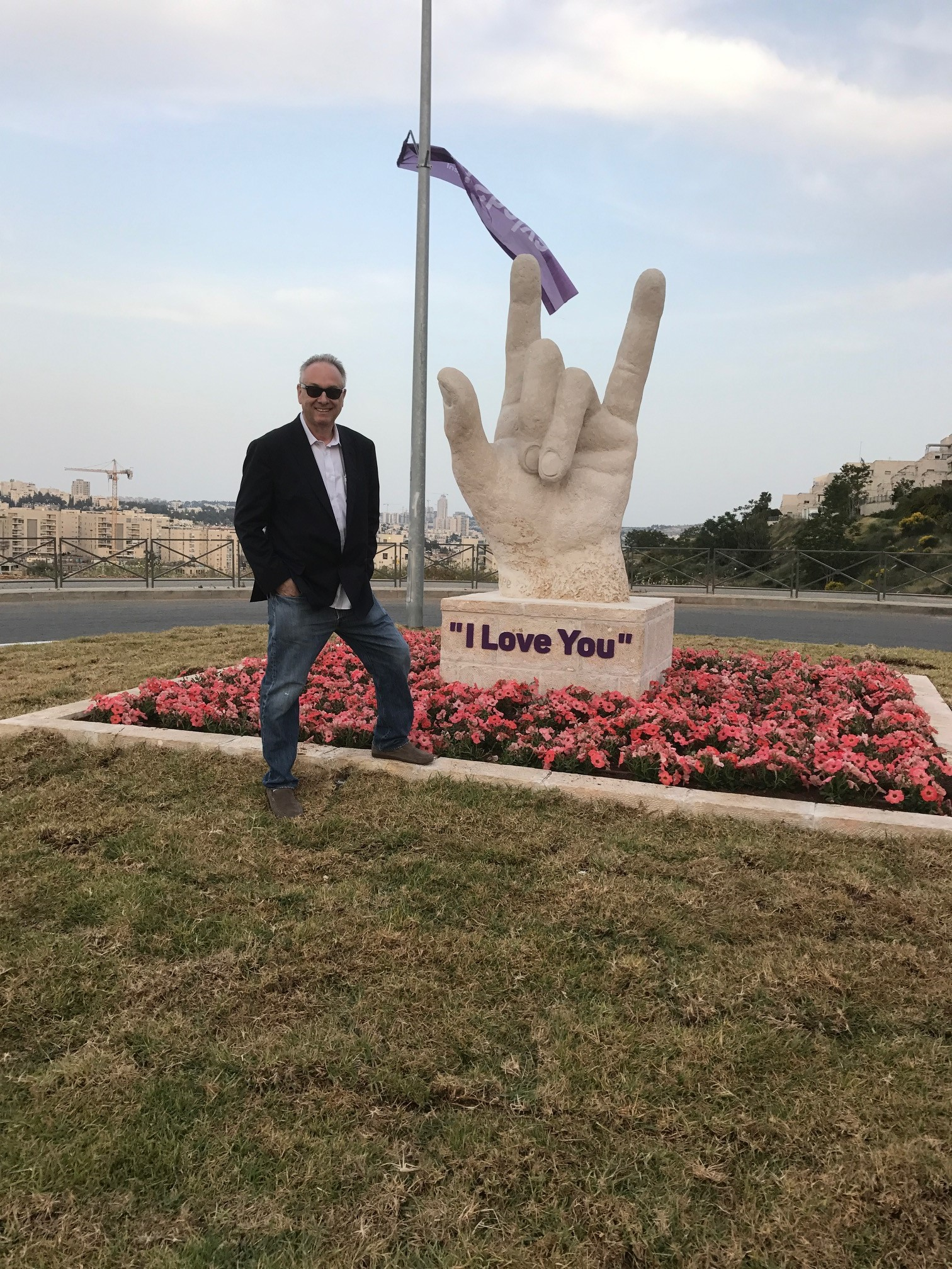 Israeli sculptor Sam Philipe standing in front of his sculpture, I Love You (showing 'I love you' in sign language), Jerusalem